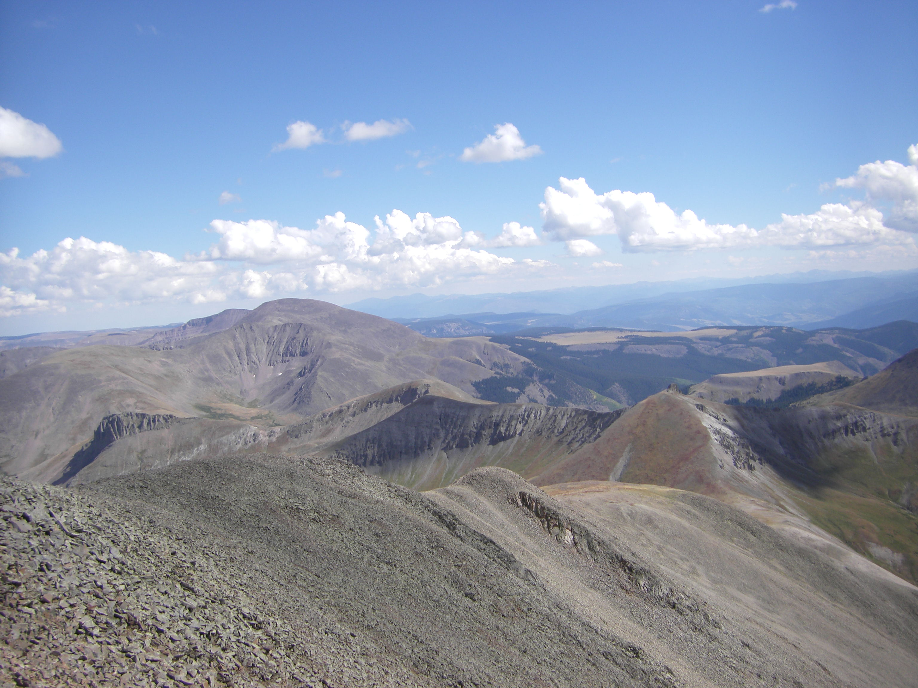 View from San Luis Peak to the south, showing the southern ridge route to the peak.